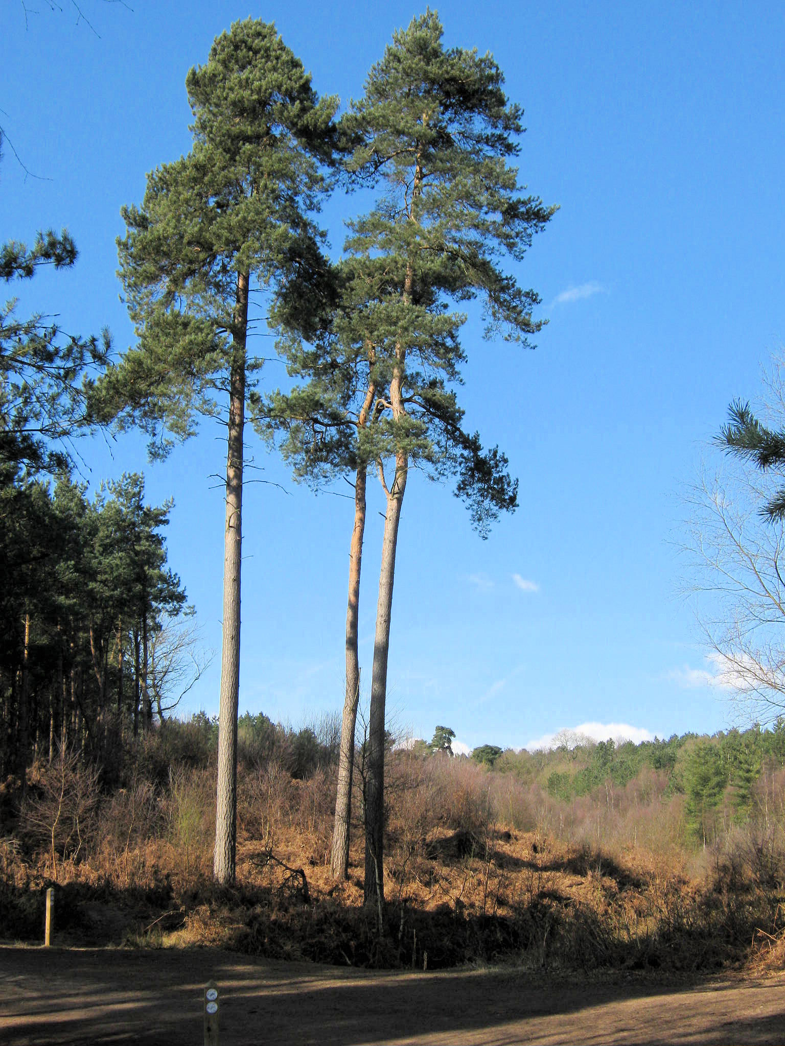 A trio of Scots Pine. These three Scots Pine trees seem to have grown up all by themselves near the bottom of Hunger Hill in Delamere Forest.